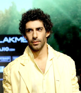 At Lakmee 2017